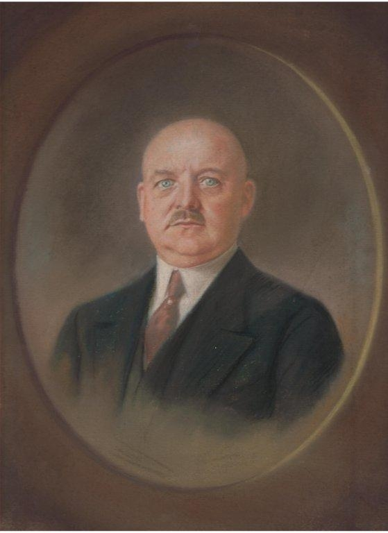 cristal and china merchant Friedrich Weitz (1865 Bad Pyrmont - 1929 Hanover), founder of the cristal store Weitz in Hanover